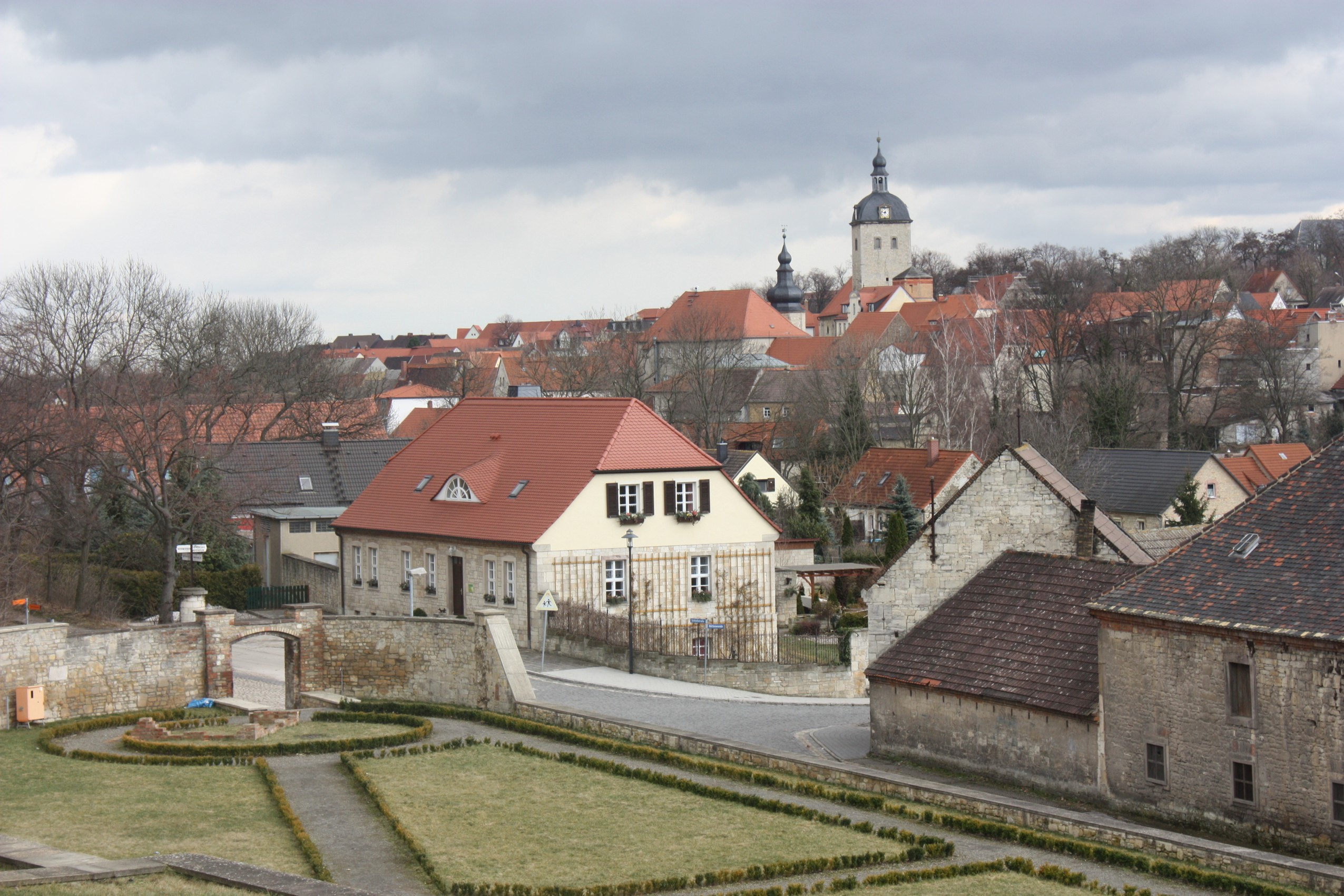 Mücheln (Geiseltal), view from the baroque garden to the town